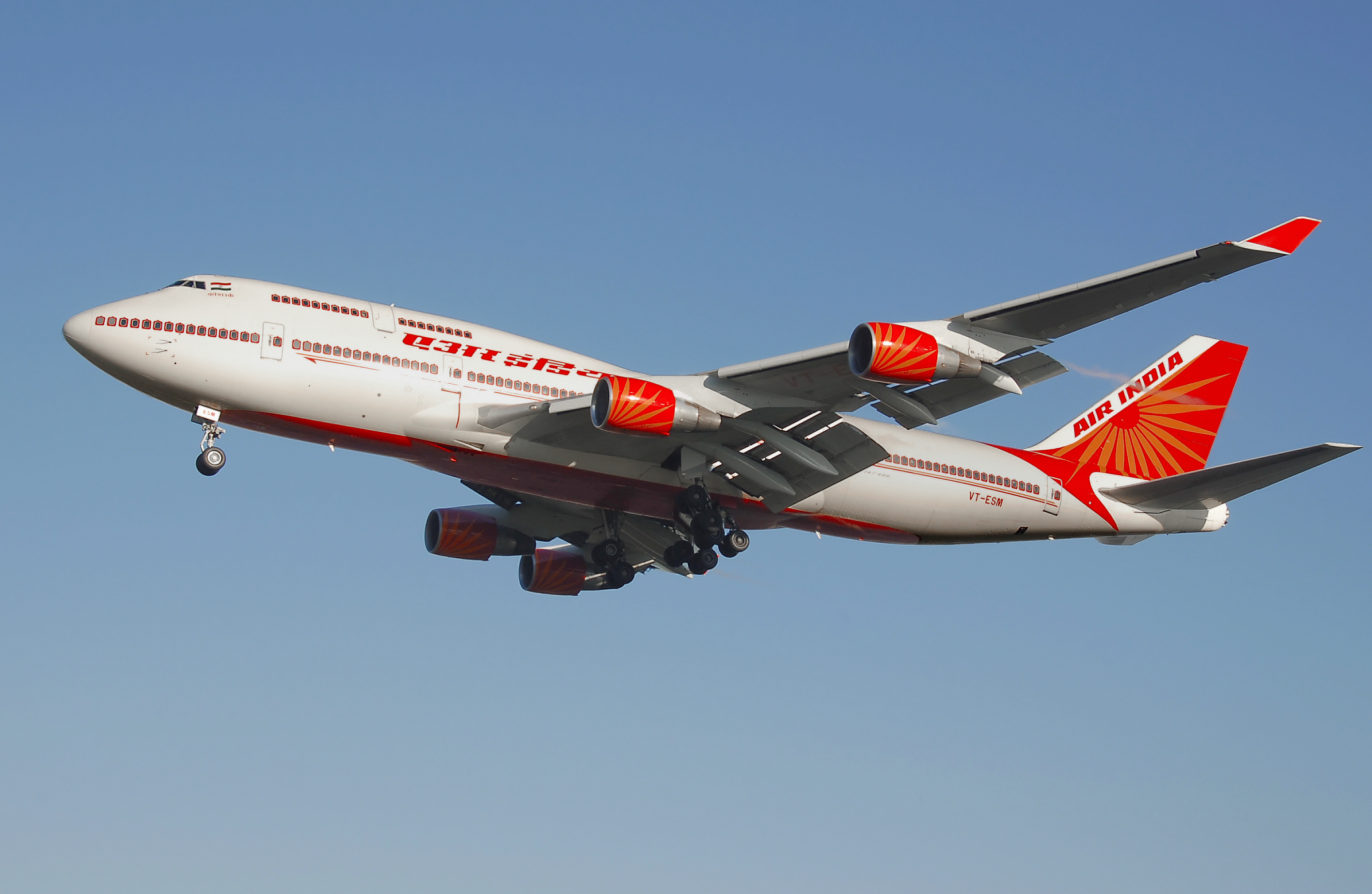 Air India Boeing 747-400 (VT-ESM) lands at London Heathrow Airport, England. Notice the vapour trail off the flap end, passing the fin. There is a very faint trace of the trail on the other (starboard) wing as well.